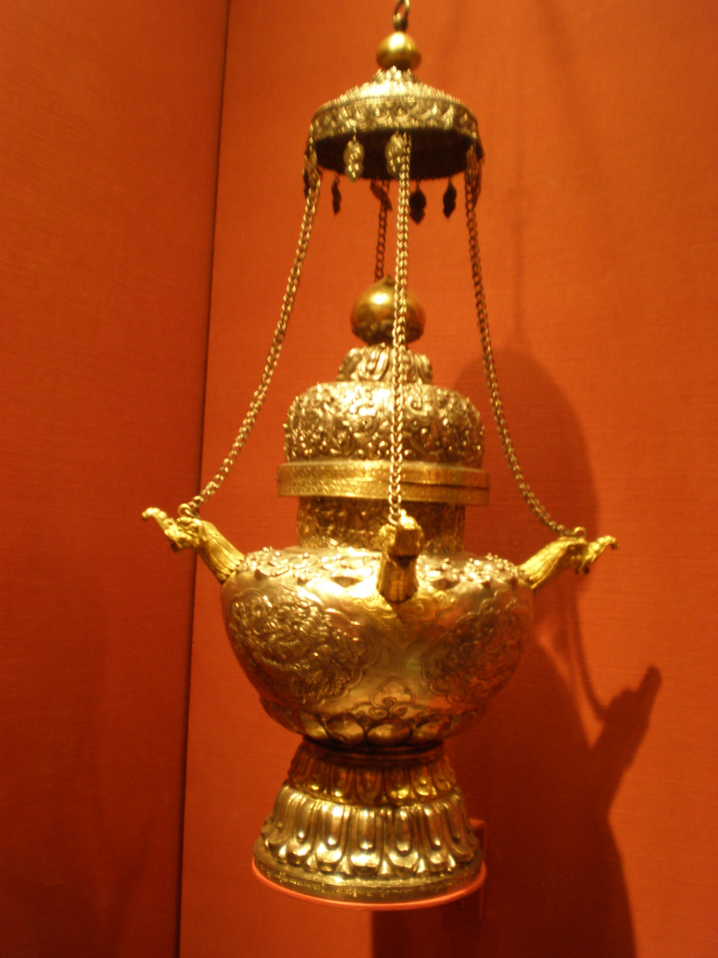 Tibetan copper censer from Palkhor Chodey Monastery (approx. 1600-1700) on display at the Asian Art Museum in San Francisco, California. Object ID: B60M104